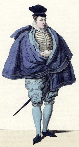 French diplomat and Protestant reformer Hubert Languet (1518-1581).